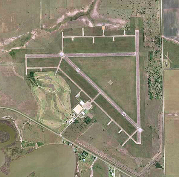 USGS digital orthophoto of Palacios Municipal Airport in Texas